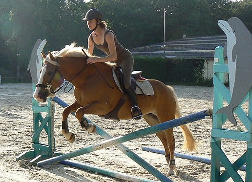 A Haflinger horse jumping an obstacle